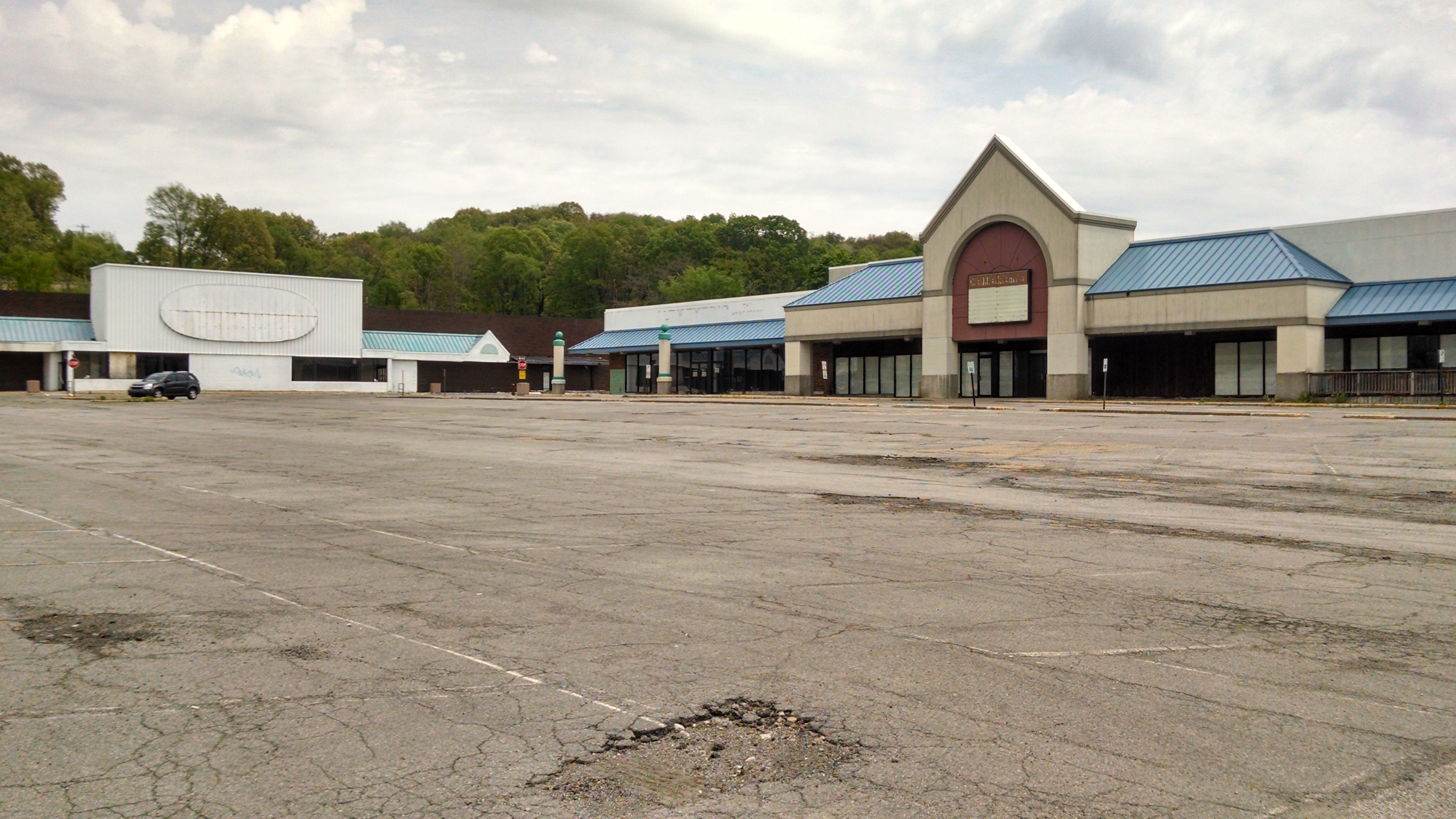 Empty retail buildings on the southern side of the Northern Lights Shopping Center in Economy, Pennsylvania, United States. The taller building on the right was formerly a Hills store and later an Ames store before abandonment.